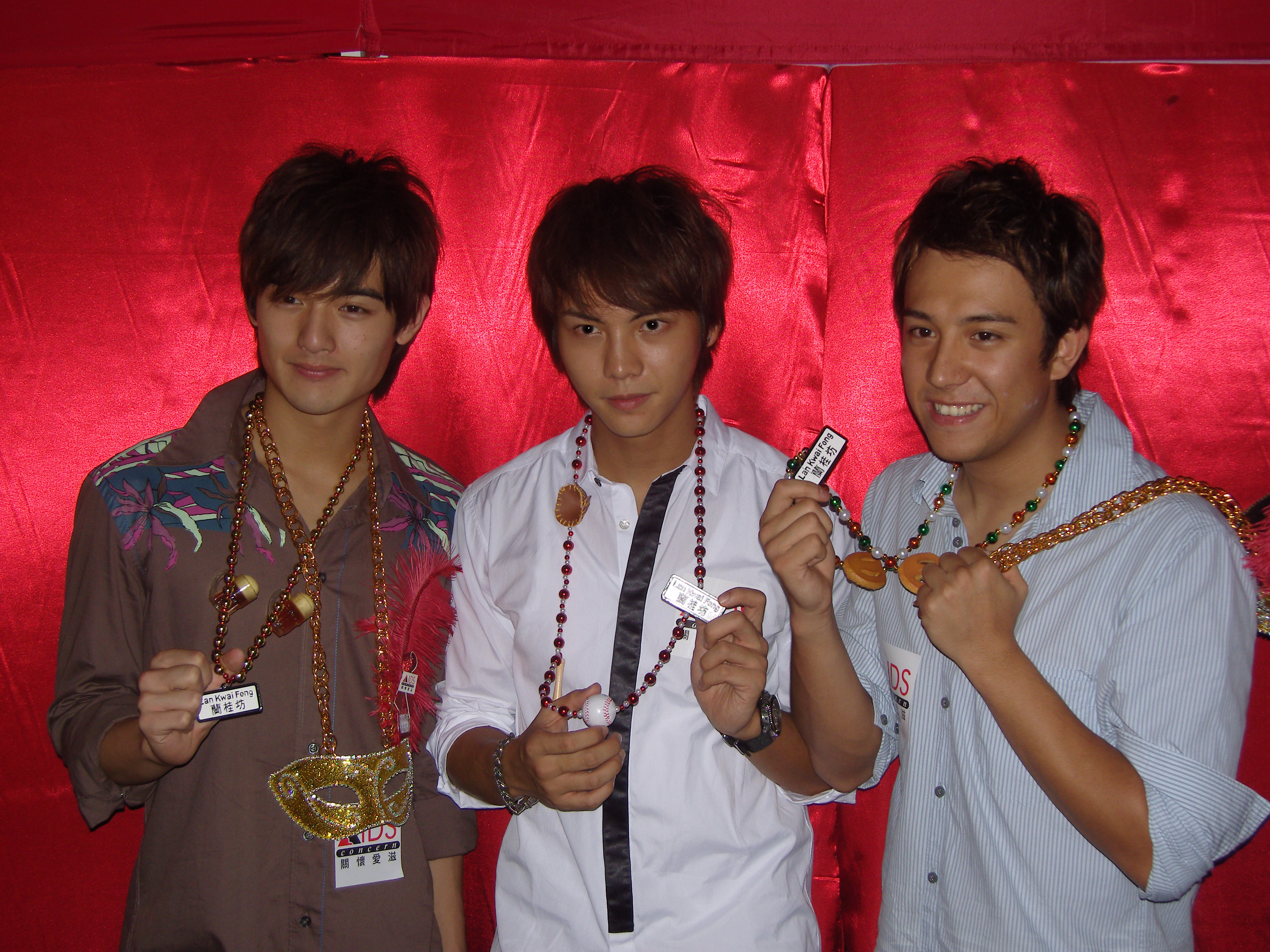 Lan Kwai Fong Carnival 2007 at Lan Kwai Fong, Central, Hong Kong.